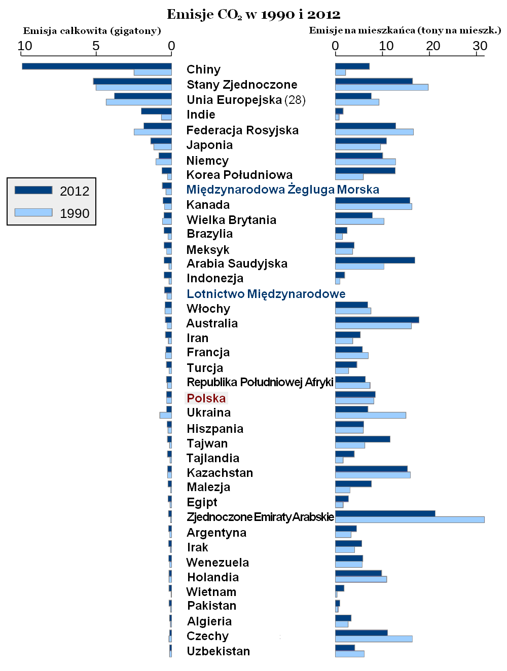 Shows the top 40 CO2 emitting countries in the world in 1990 and 2012, including per capita figures. The data is taken from the EU Edgar database and includes figures for international shipping and airlines, which are not included in countries' submissions. [This does not include domestic air traffic.]